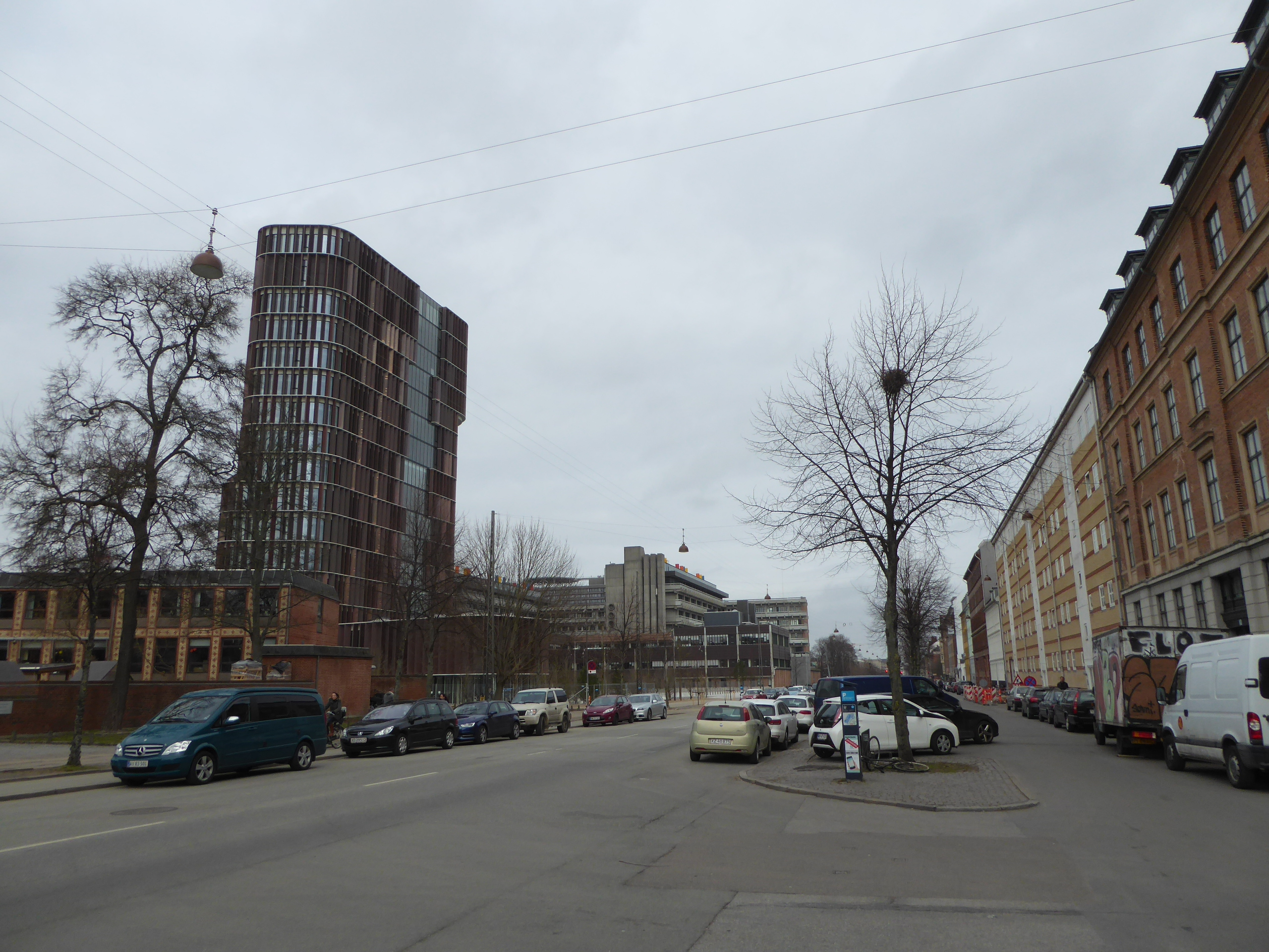 The street Blegdamsvej in Nørrebro in Copenhagen. At the left the high-rise Mærsk Tårnet.